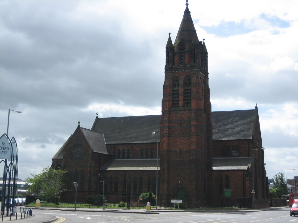 St John's Church, Middlesbrough